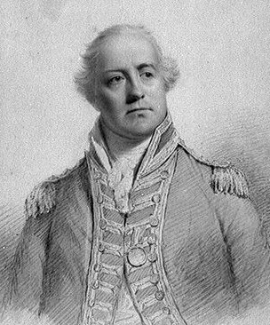 Portrait of James Gambier, 1st Baron Gambier (1756-1833). Ink wash over graphite. Image cropped to remove frame.